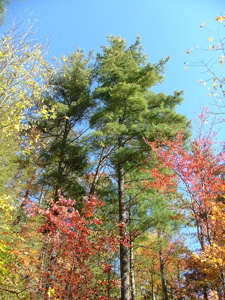 Pinus strobus, Citco Creek Wilderness, Cherokee National Forest, Tennessee, 35°24'24"N, 84°4'18"W, 690m altitude